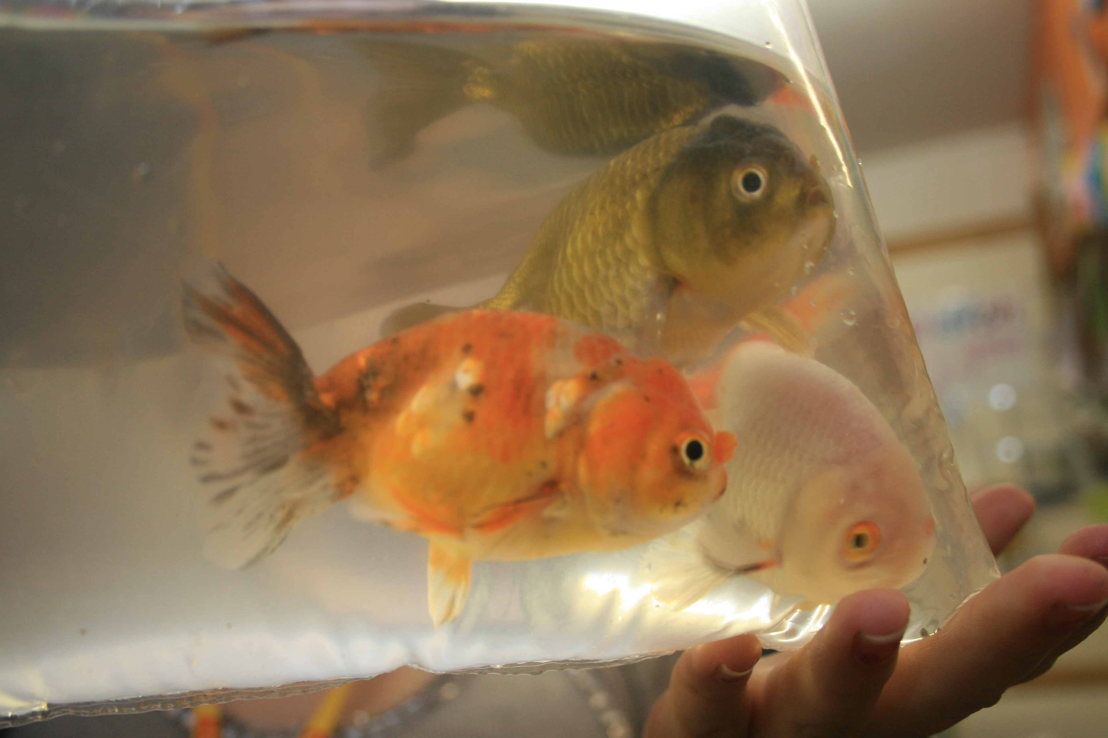 Ranchu Goldfish in a bag with water. Photo taken in small goldfish shop in Audenshaw, Greater Manchester, England UK.